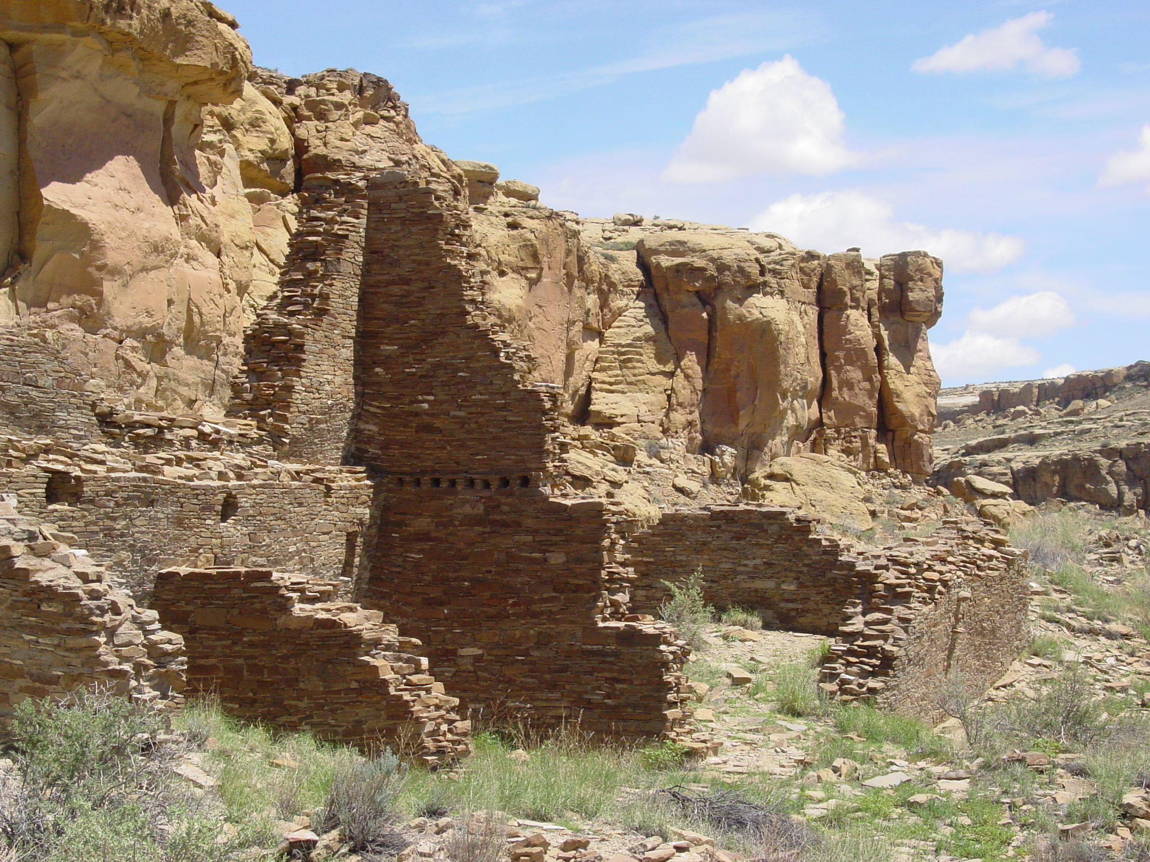 An image of Hungo Pavi, located in the central portion of Chaco Canyon (New Mexico, United States). A staircase can be seen leading out of the complex.